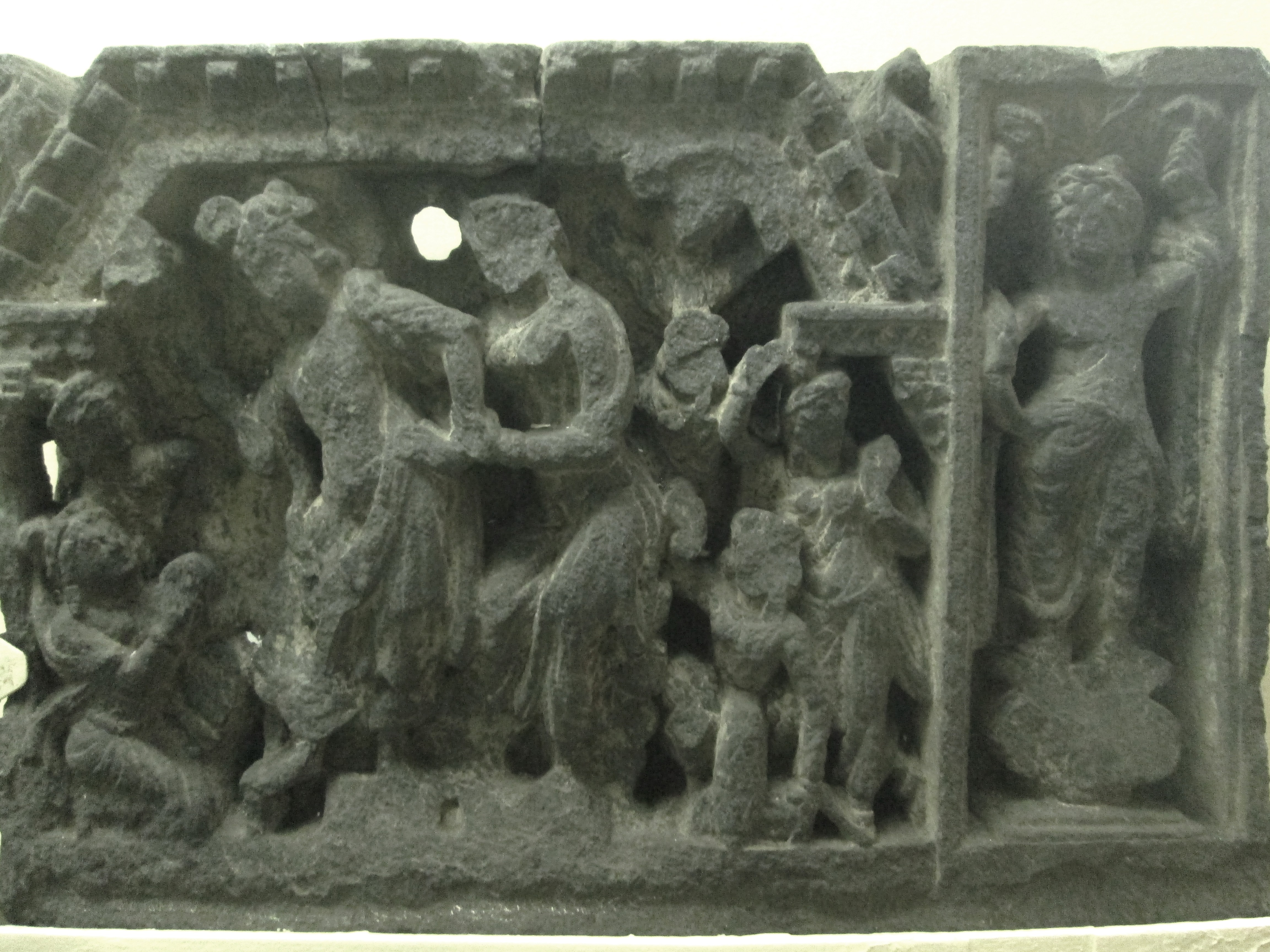 032 Siddhartha held by Yasodhara, Loriyan Tangai, at the Indian Museum, Kolkata Photograph from the Indian Museum in West Bengal taken by Anandajoti.